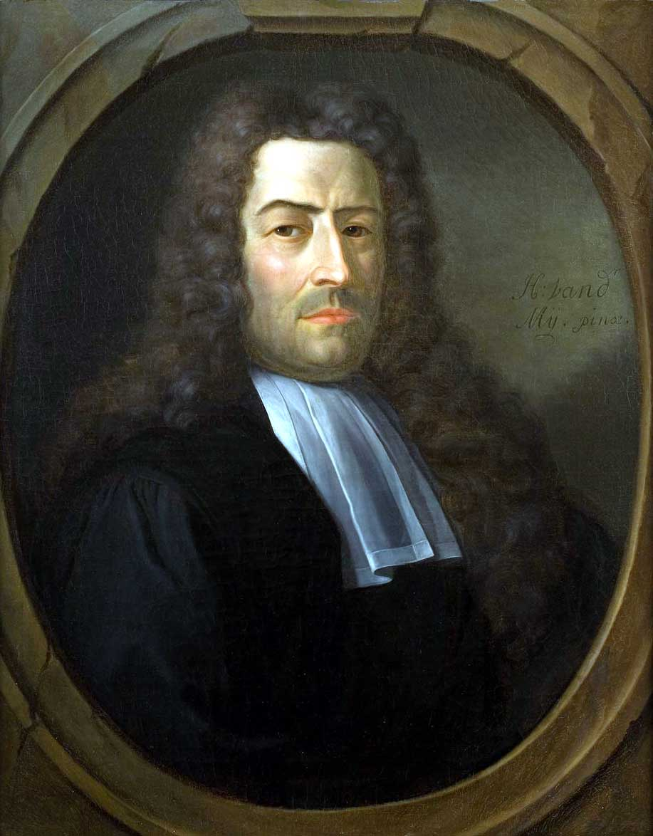 Antonius Schultingh also: Anton Schulting, Schultingius; (1659-1734) Nederlandse jurist